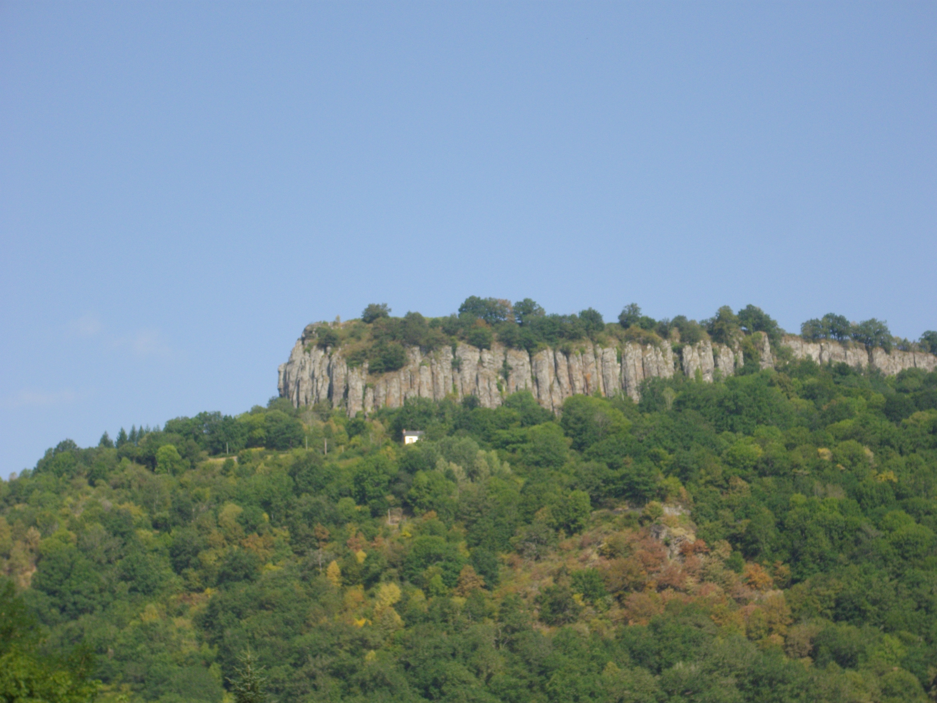 Geological formation of phonolites, known as Orgues de Bort in Bort-les-Orgues (Corrèze, France)